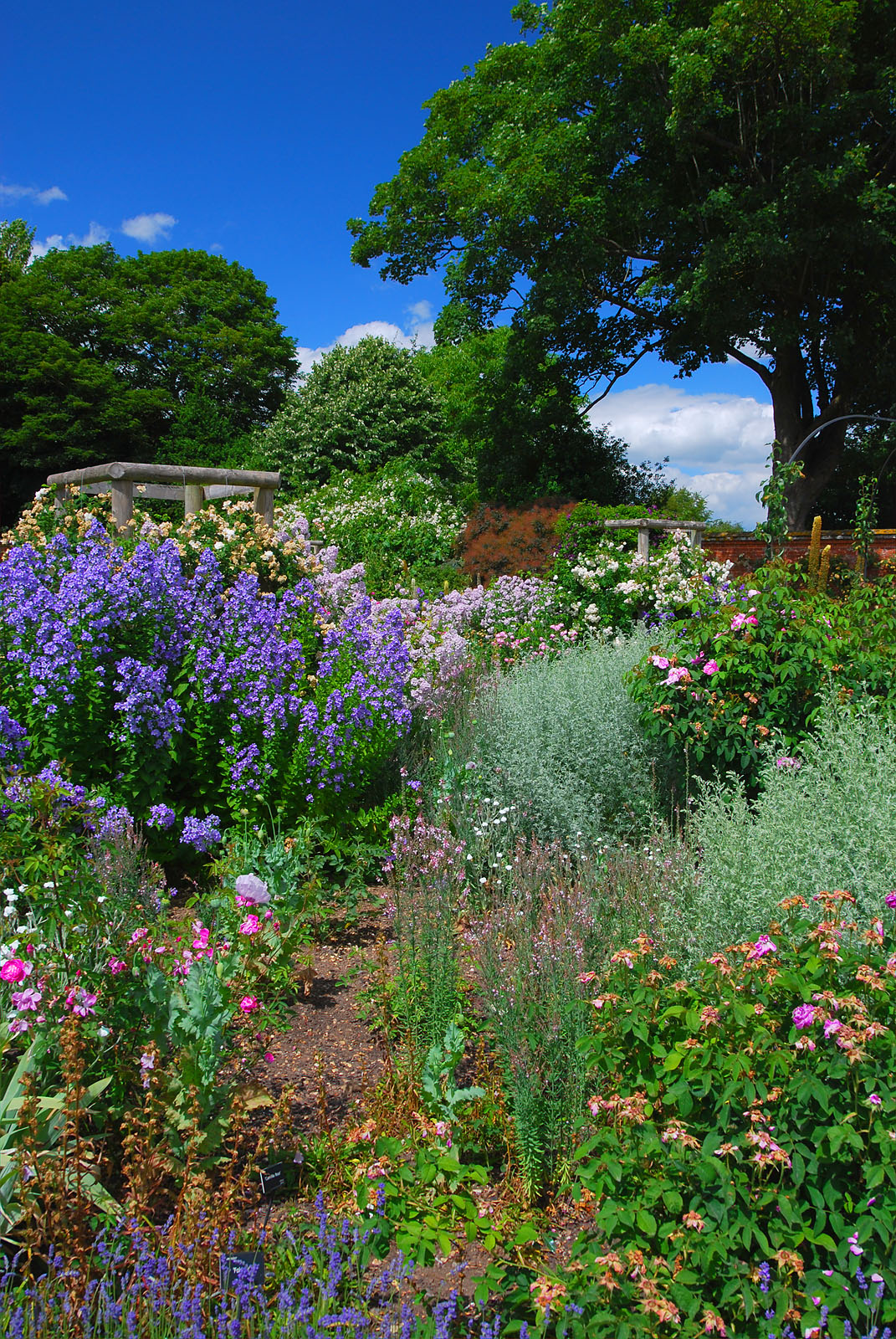 A view of the Gardens at Mottisfont Abbey, Hampshire, UK.